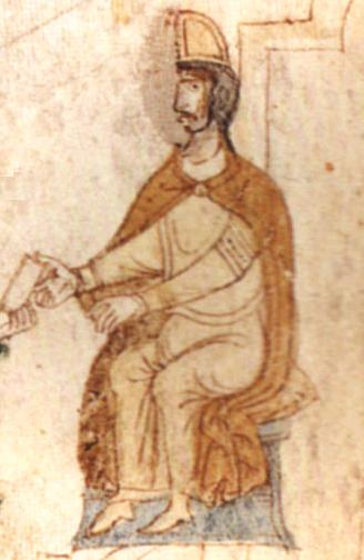 Tancred of Lecce, King of Sicily.